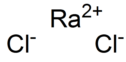 Radium Chloride